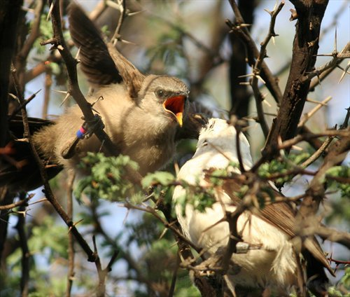 Adult provisioning a dependent fledging (Southern Pied Babbler (Turdoides bicolor)).